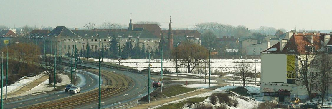 Panoramy of Zagorze - Poznan.